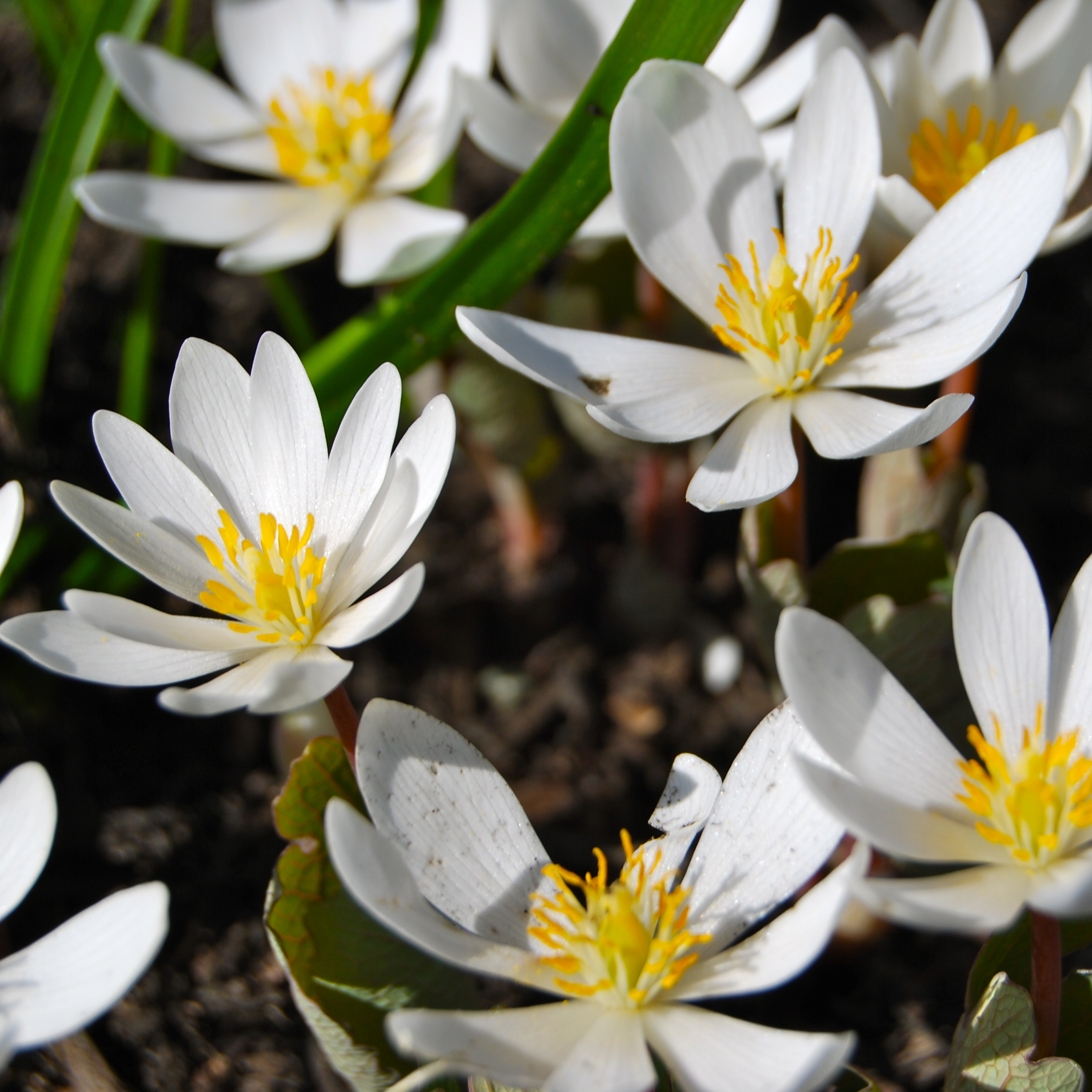 Bloodroot (Sanguinaria canadensis)